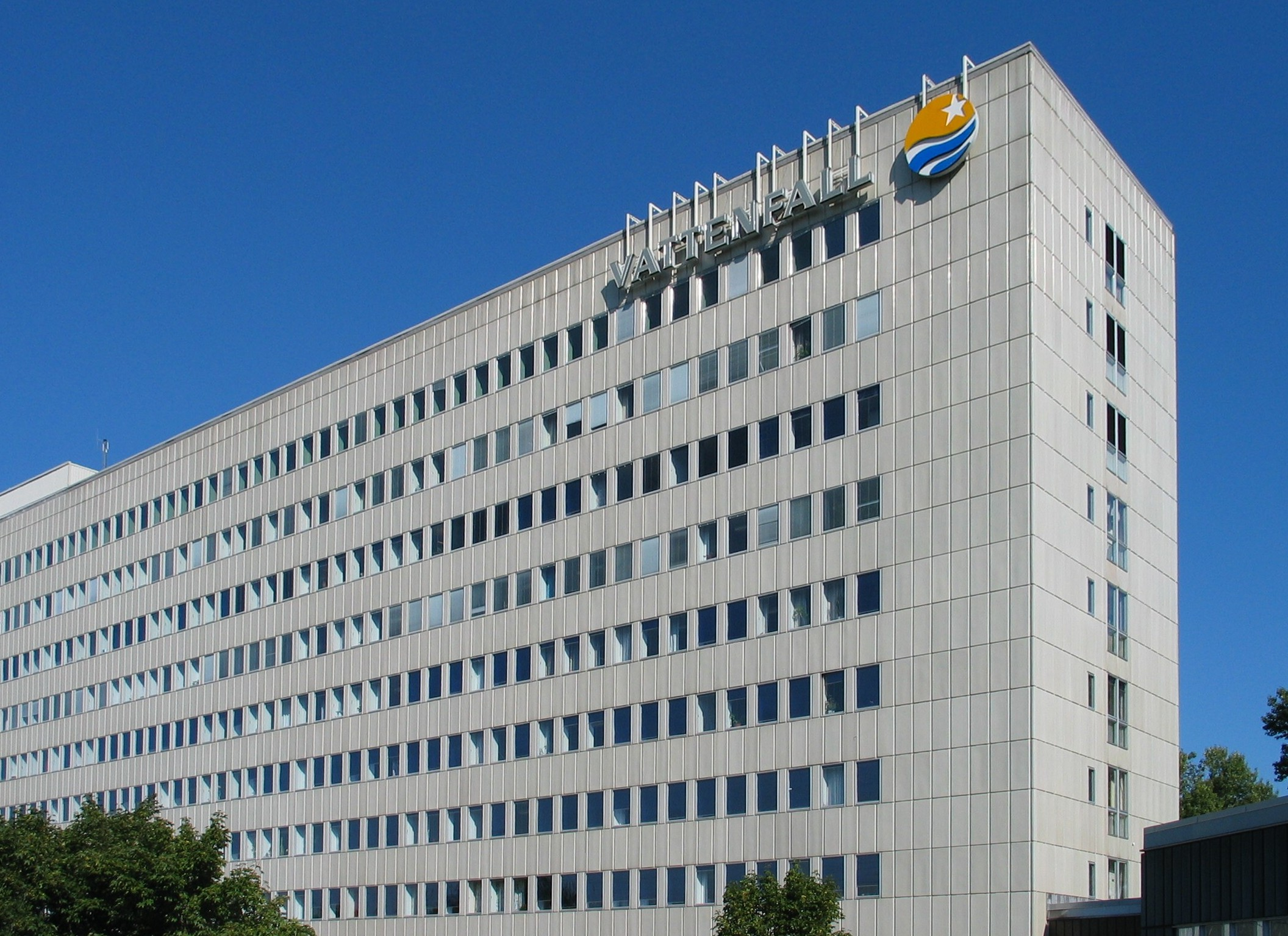 Former Vattenfall office building in Stockholm, Sweden.